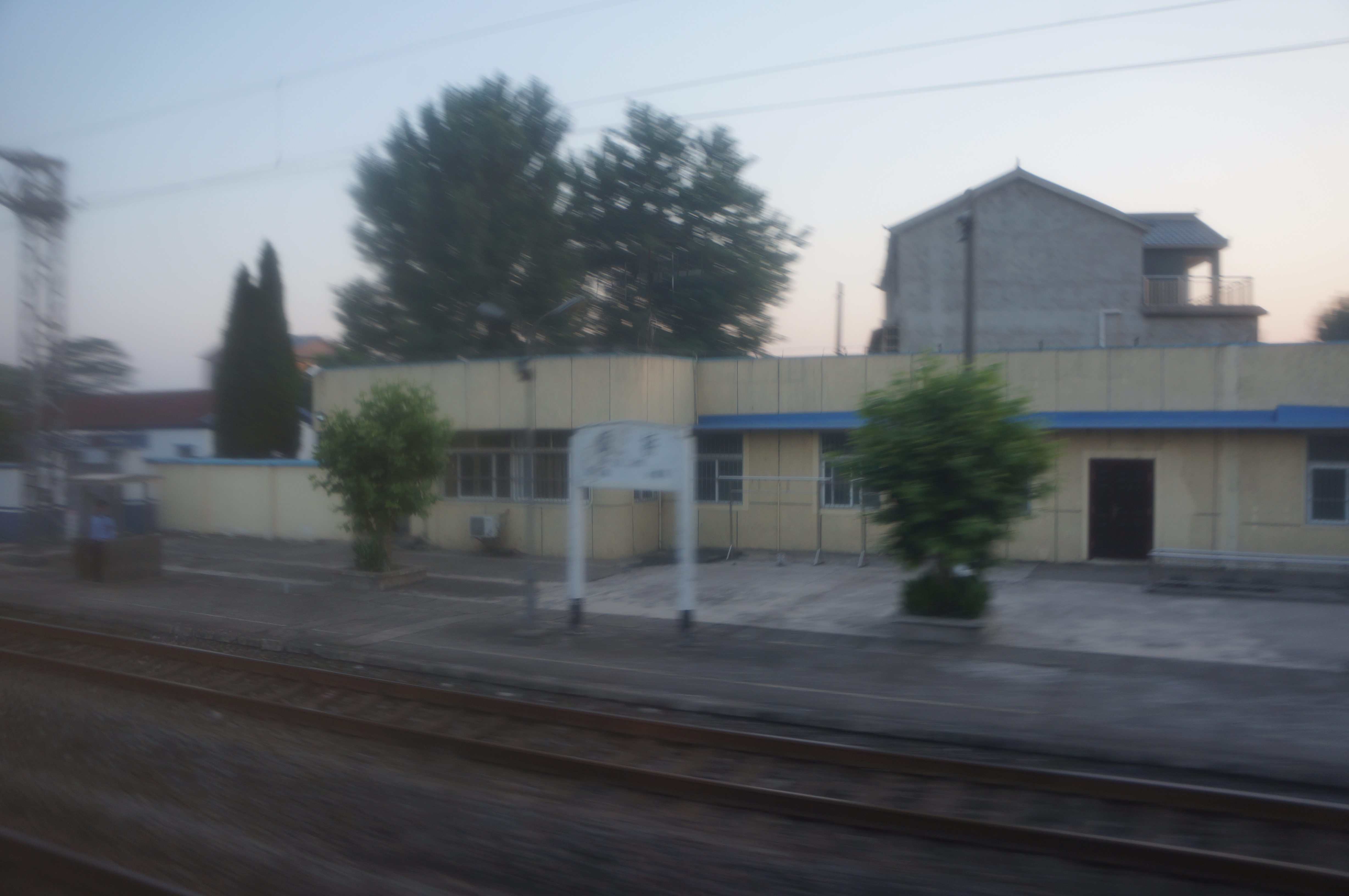 201705 Nameboard of Banqiao Station, i was thinking about "往南港，板橋，土城方向的旅客，請在此站換車"